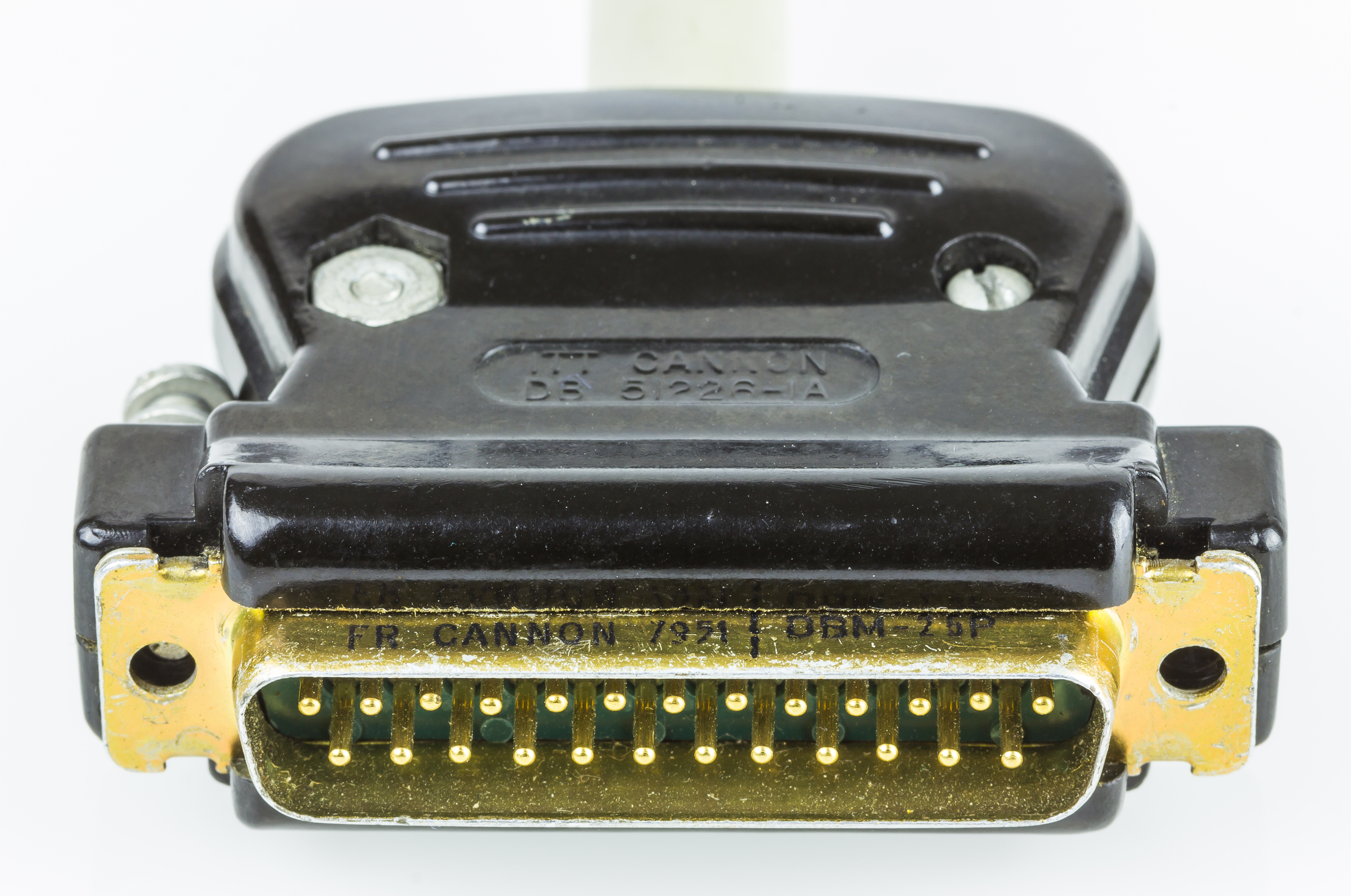 Cannon DBM-25P connector. Male, 25 pin, made by Cannon